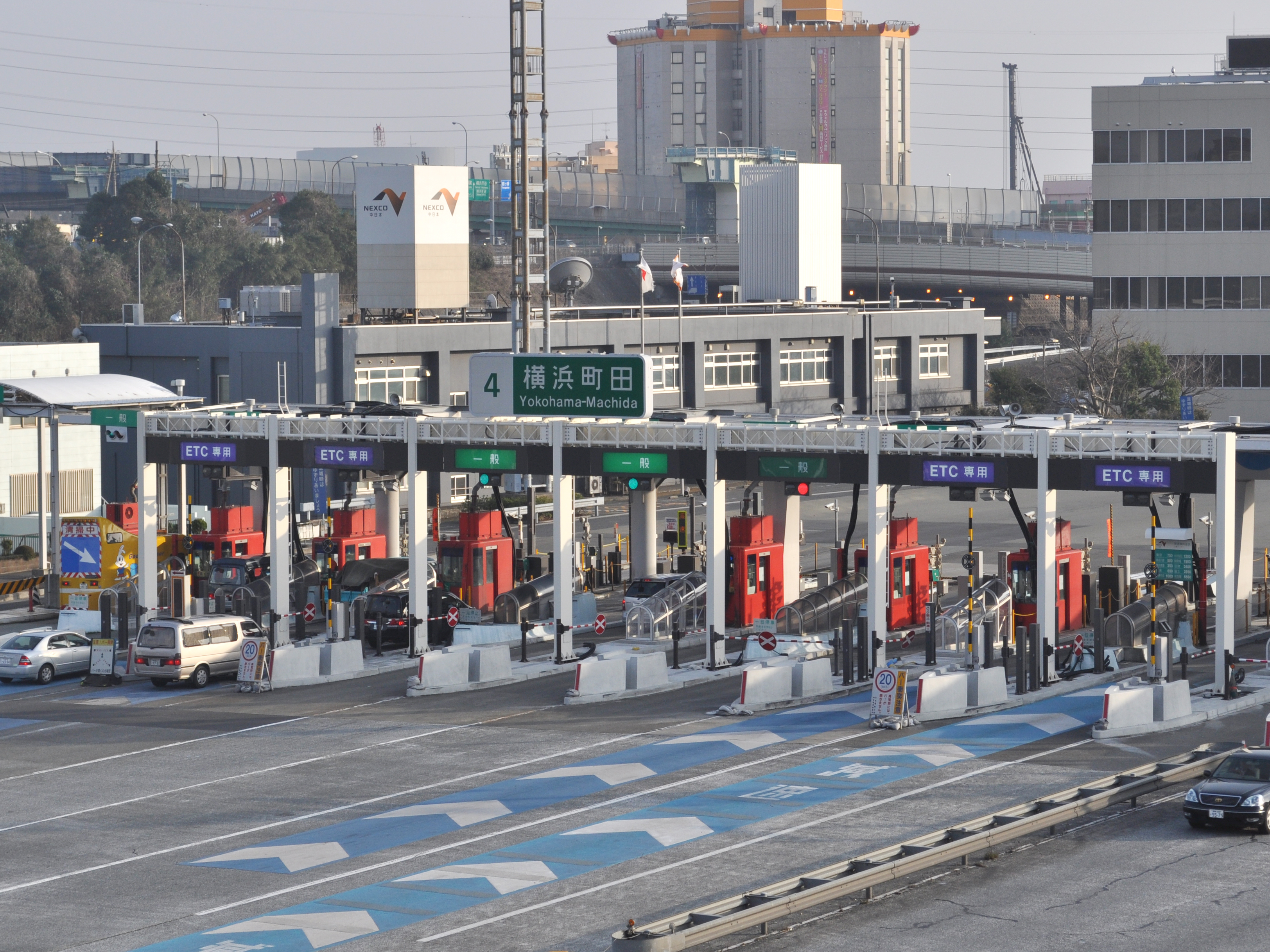 Entrance of Yokohama Machida IC on Tōmei Expressway in Japan.